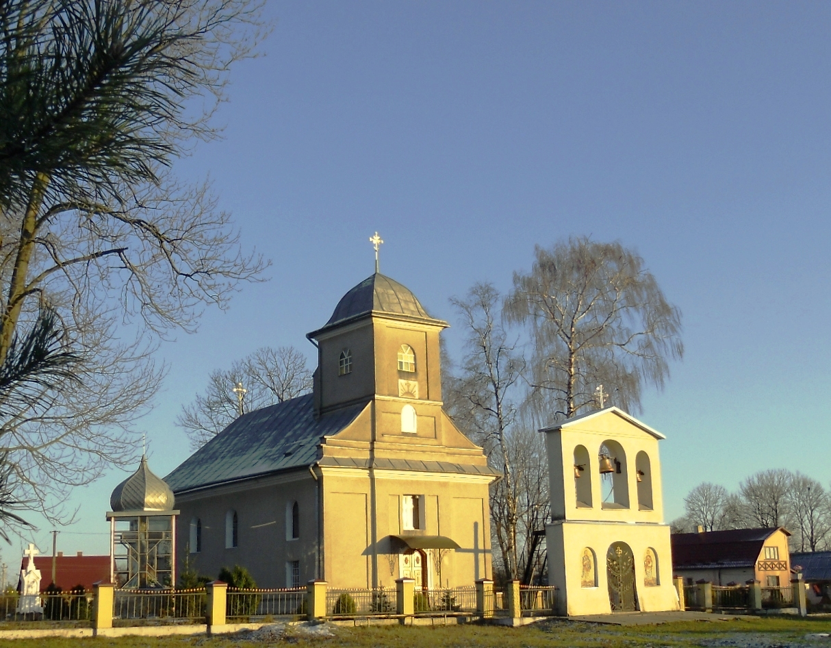 St. Cosmas and St. Damian's Church (1819) in the village Halychany, Horodok district.